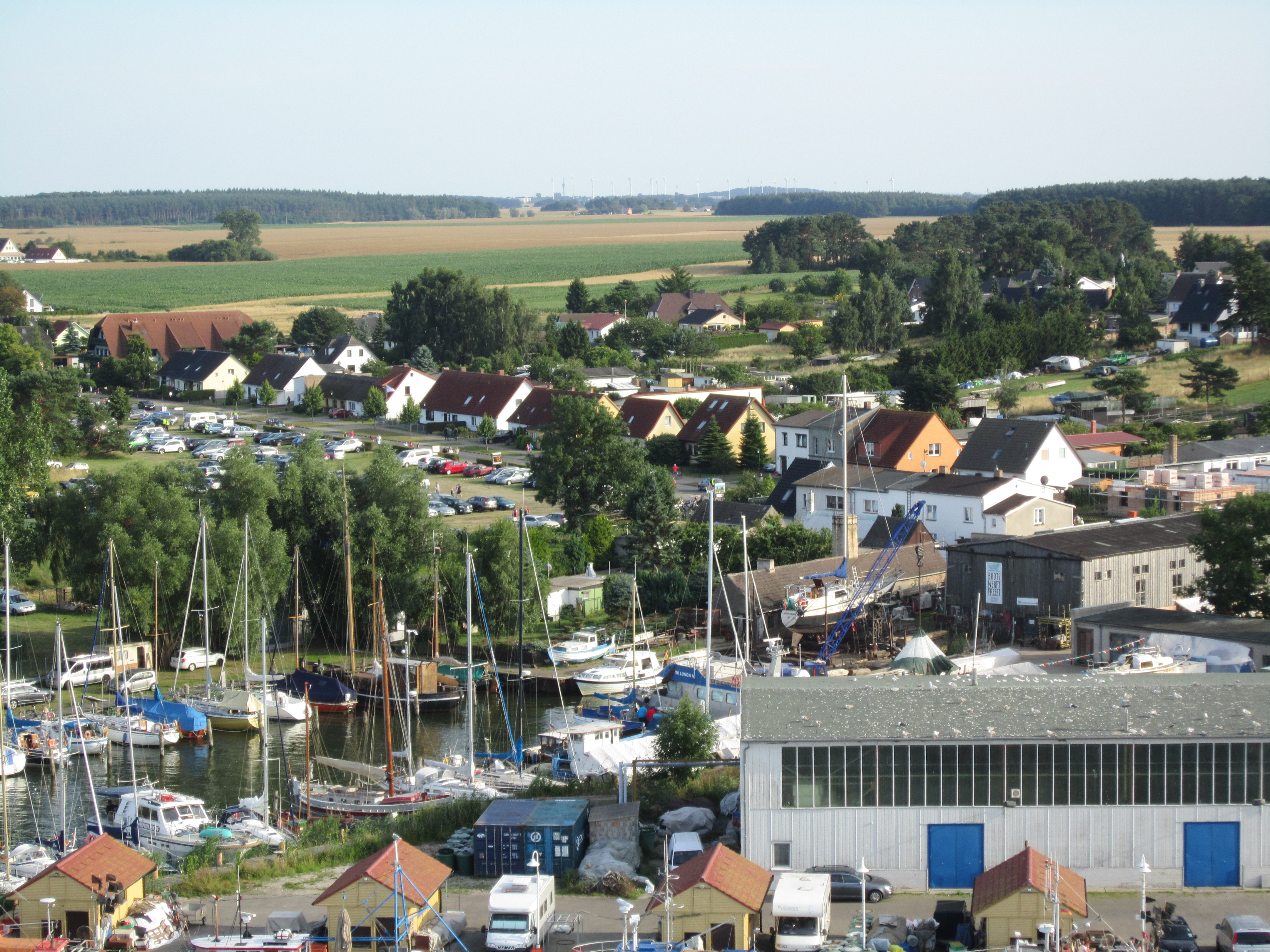 View from the Ferris wheel of Freest "Fischerfest" across Freest harbour and village